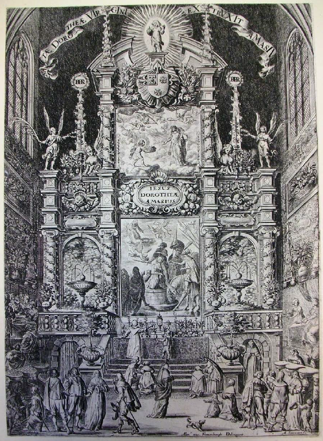 The high altar of the Brussels church of the Calced Carmelites during the feast of St Dorothea, 1640. Etching by Abraham Santvoort after Alexander van Fornenberg, Prentenkabinet KBR, Brussels